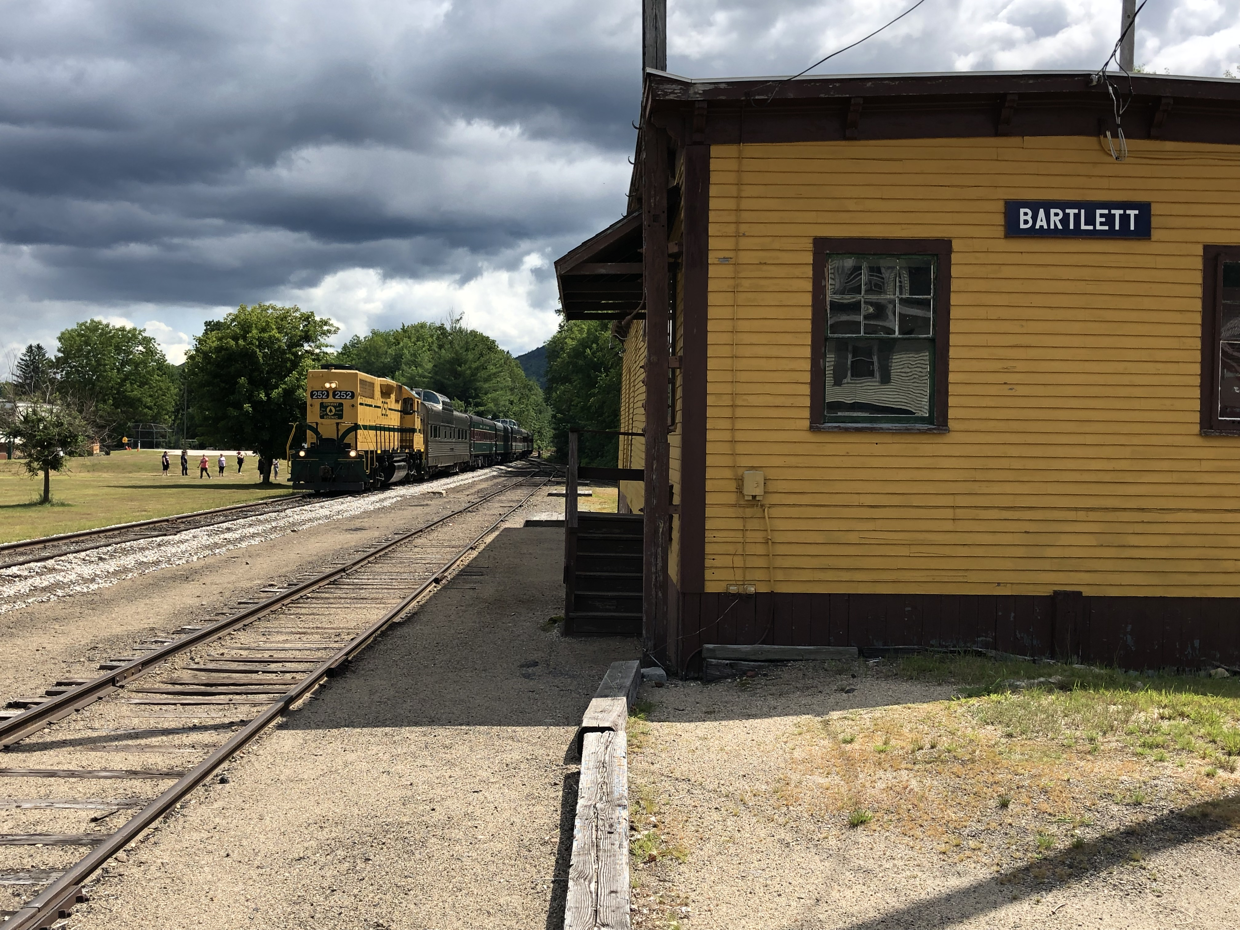 The Notch Train of the Conway Scenic Railroad approaching Bartlett station